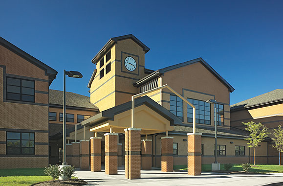 Allen Reading and Preparatory School